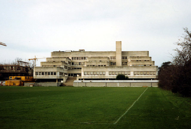 Department of Zoology, Oxford University This building, which faces onto South Parks Road was later renamed the Tinbergen Building after Nobel prize-winning ethologist Niko Tinbergen, who lectured at the University and died in 1988.